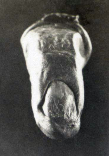 Photo № 120. Human finger found at the mine. Sokolov's investigation: No. 58. A finger. Experts prove that it belongs to a woman of middle age, who had long, thin, artistic fingers used to being manicured. It has been ascertained by investigation that the housemaid Demidova did not know the art of manicure. Under these circumstances this finger could only have belonged to the Empress. The finger was found in the shaft itself.